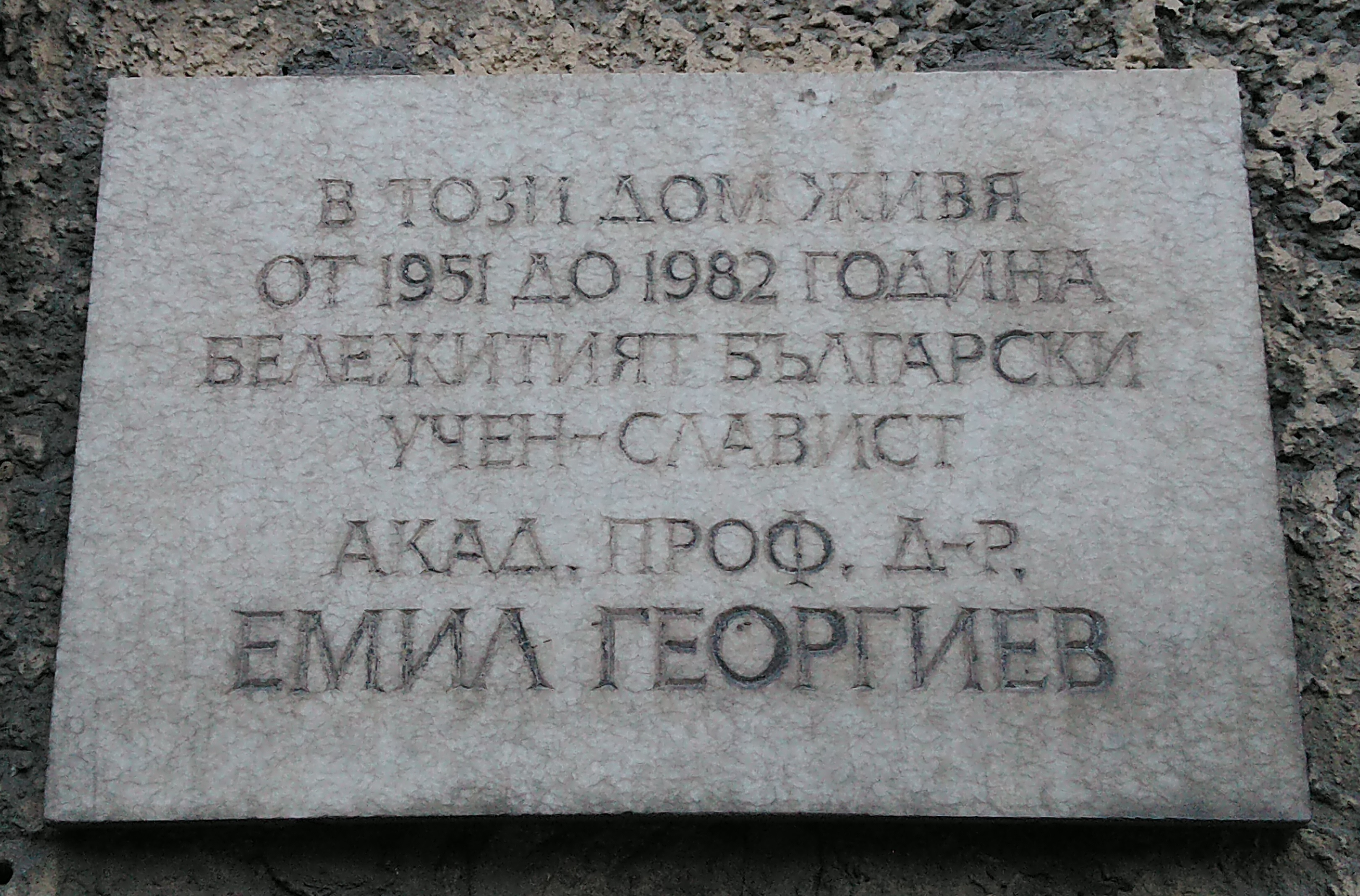 Memorial plaque of Acad. Emil Georgiev, 91 Vasil Levski Blvd, Sofia